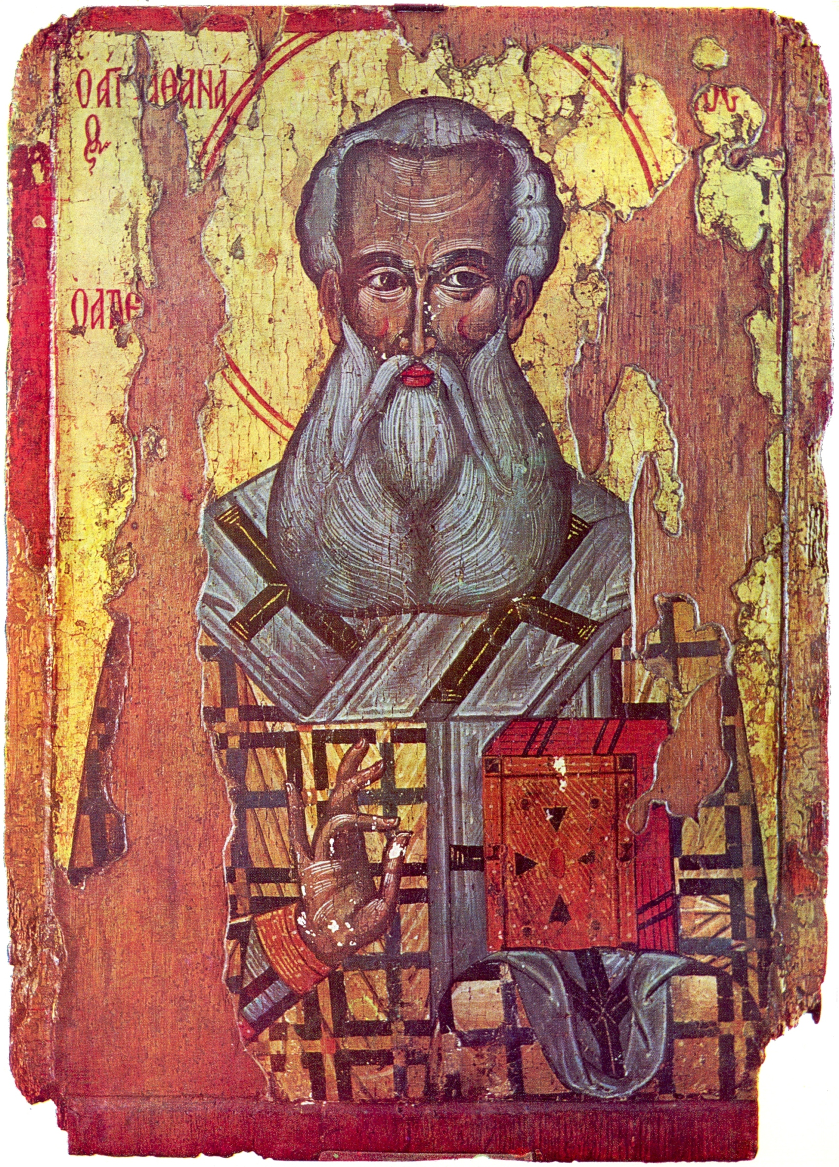 "Saint Athanasius", icon from Sozopol, Bulgaria, end of 17 century. Tempera on wood, 73/52 cm, Bulgarian national art gallery - Sofia.